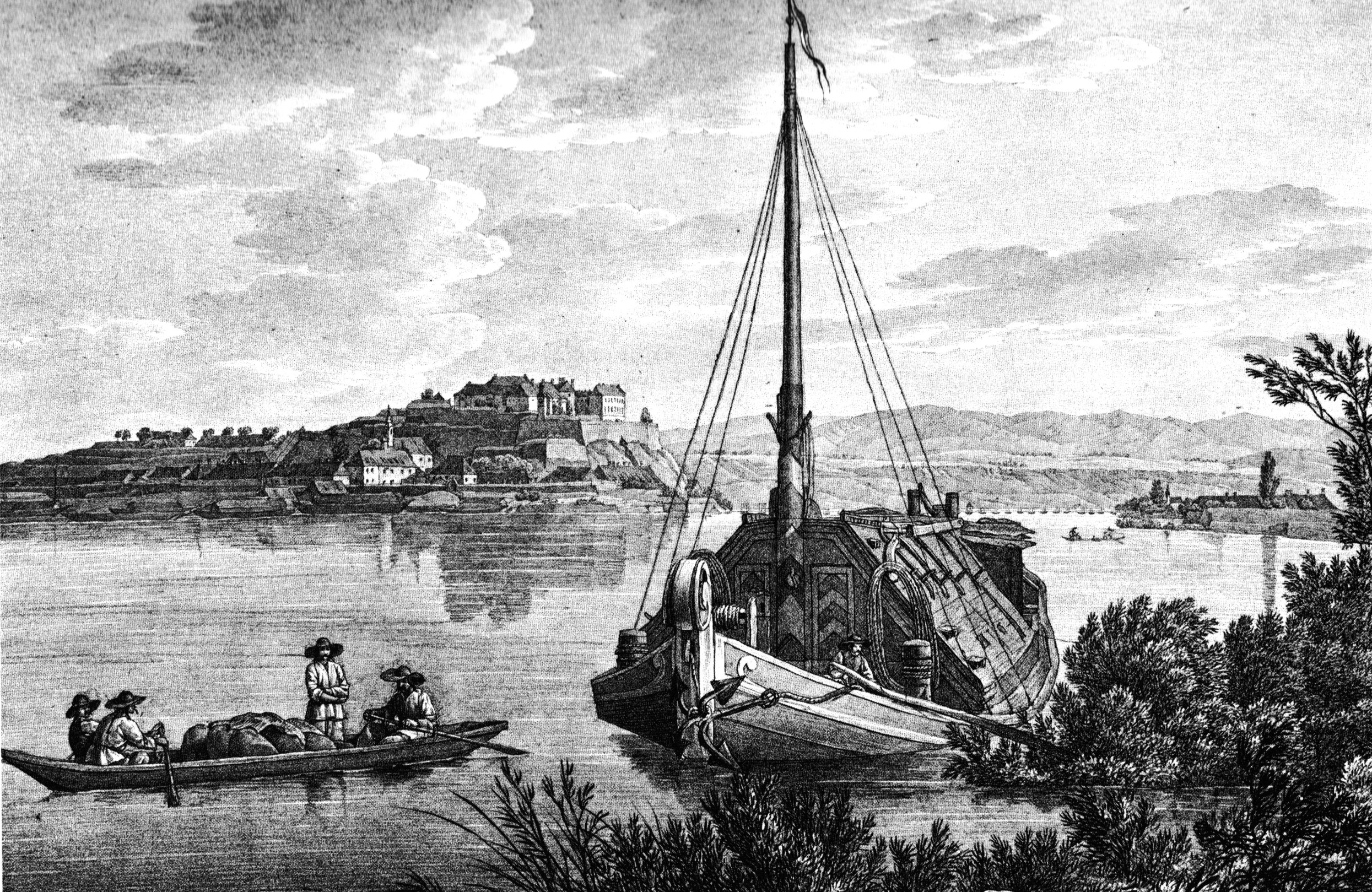 Petrovaradin, today part of Novi Sad, in 1821. Drawing by J. Alt, lithographing by Adolph Kunike